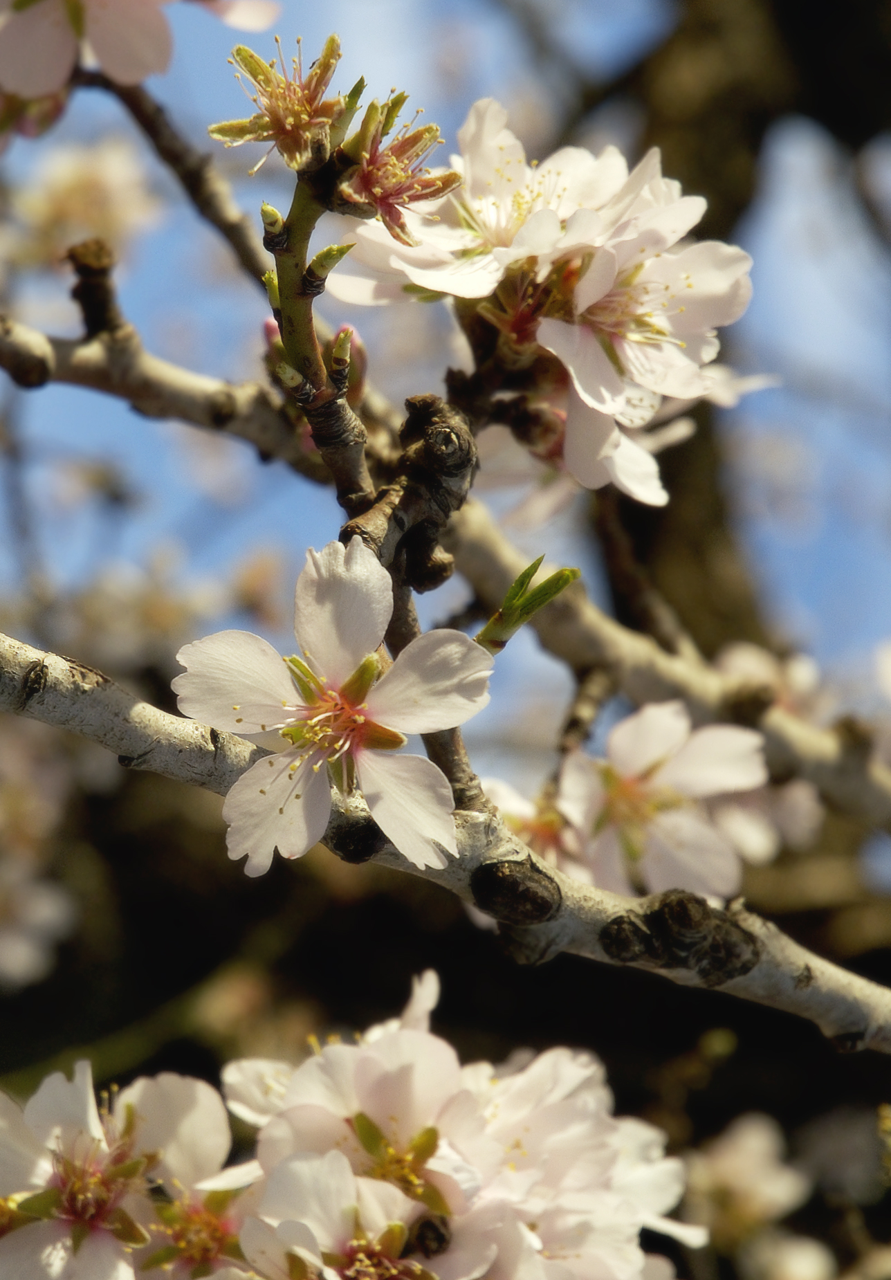 Almond blossom (Prunus dulcis) with young leaf shoots, Garraf, Barcelona, Spain 2007